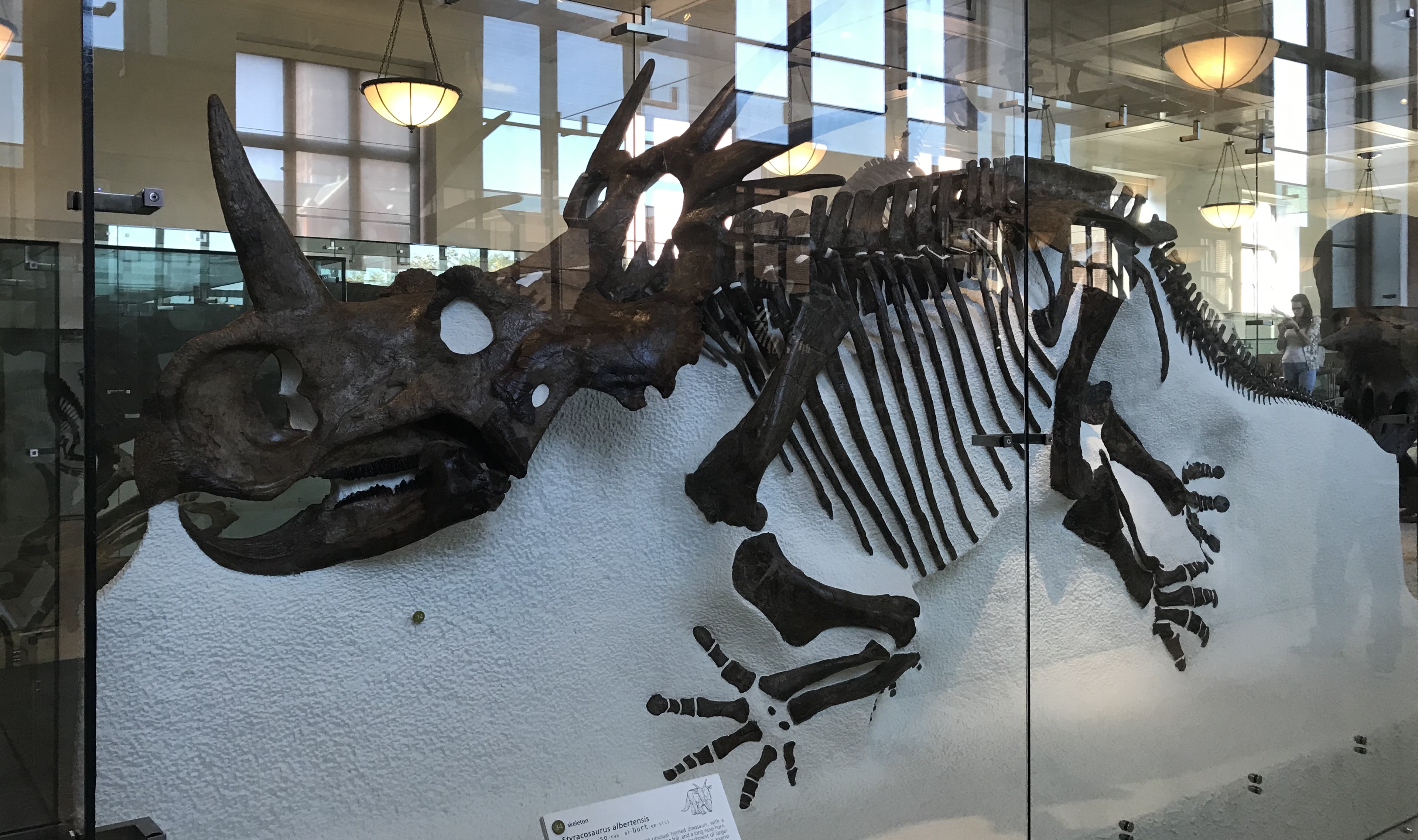 Dinosaur.